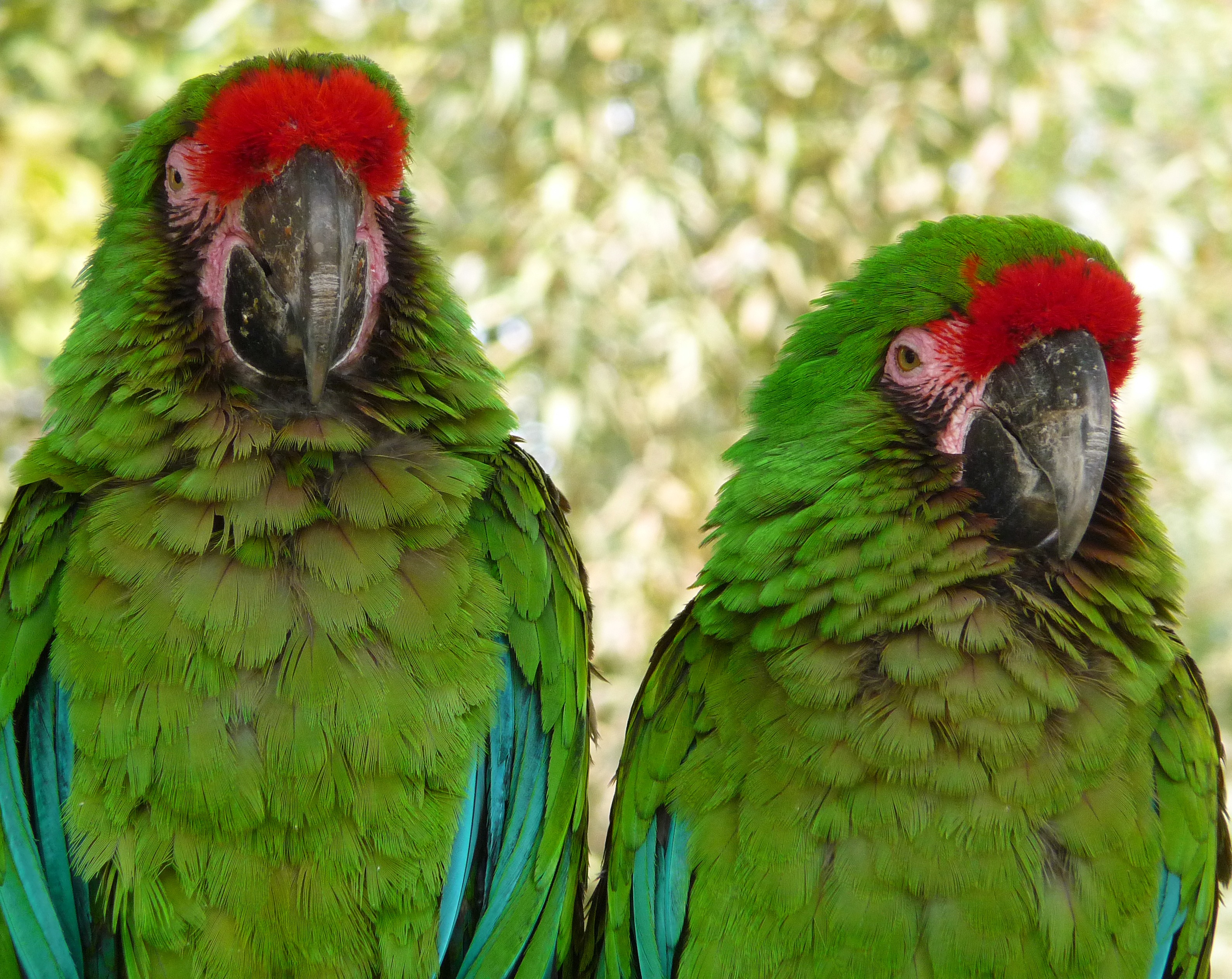 Two Military Macaws at Zoológico Los Coyotes, Mexico.